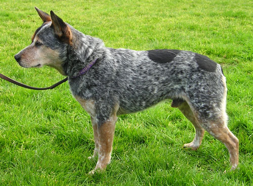 Australian Cattle Dog (blue)ADCH O-NATCH Jumpin'Jack Flash (JJ) Taken Feb 22,2004 at the SMART/USDAA dog agility competition in Salinas, CA.